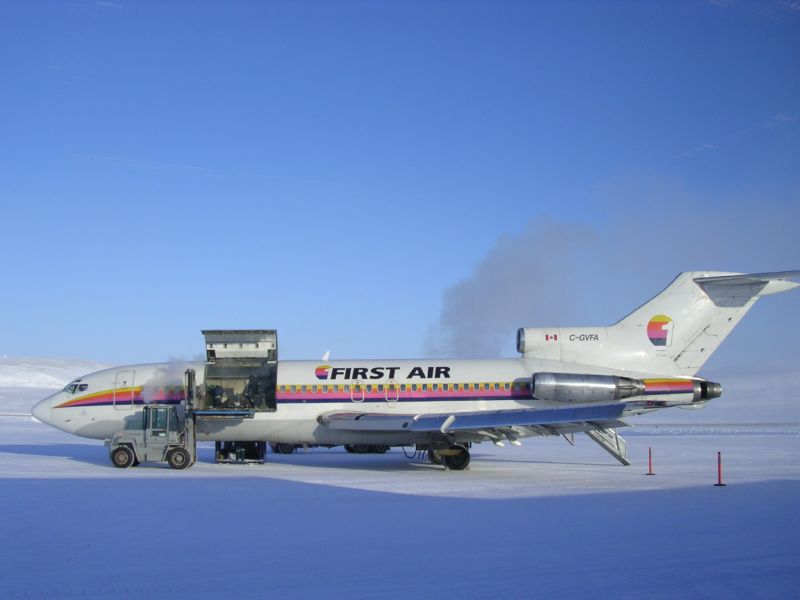 First Air Boeing B727 at Resolute Airport